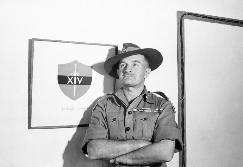 The British Army in Burma 1945 Lieutenant General Sir William 'Bill' Slim with the insignia of the 14th Army behind him, photographed at 14th Army Headquarters, 5 March 1945.